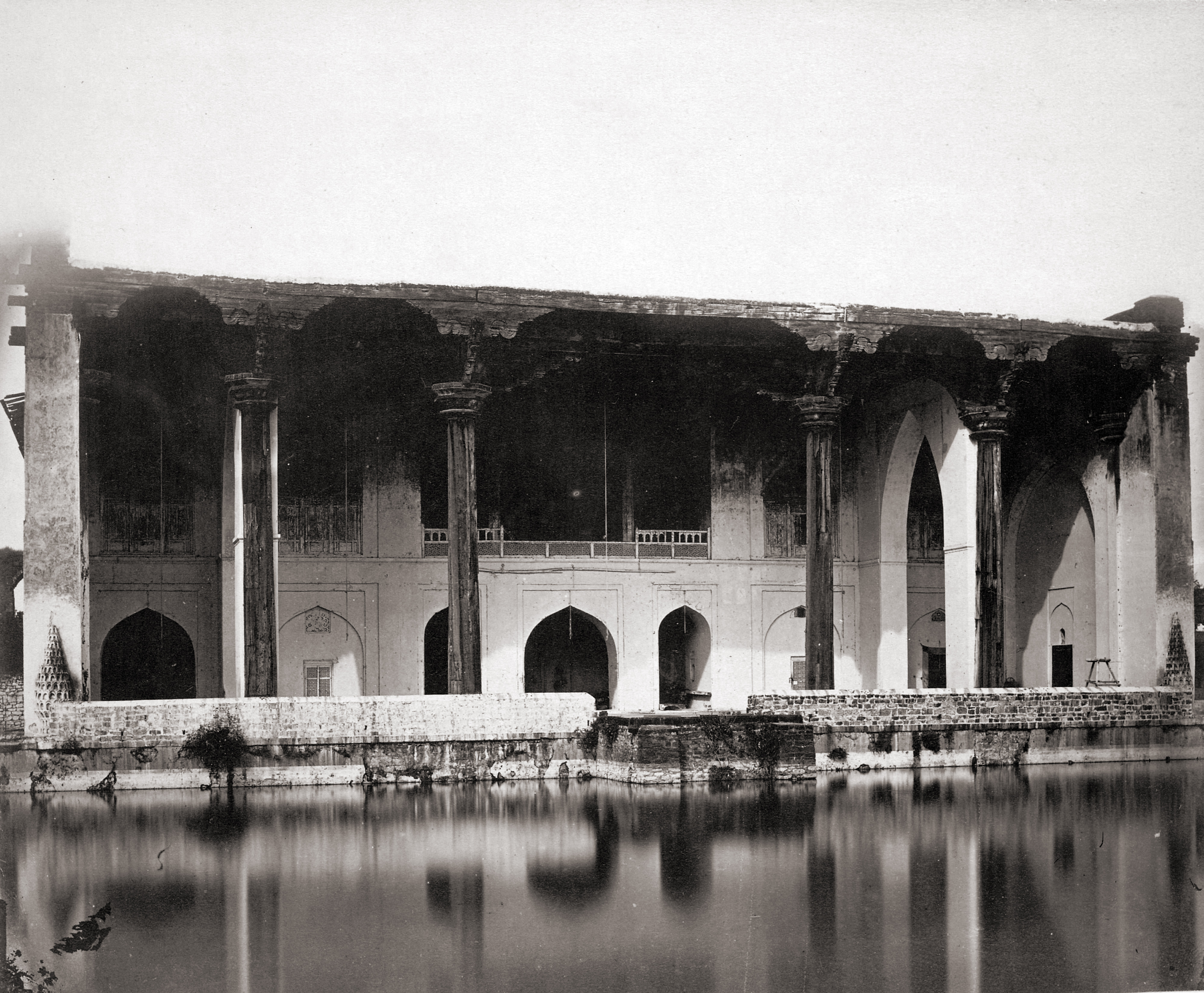 The Asar Mahal, Bijapur